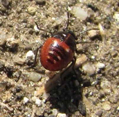 Bagrada hilaris - Bagrada bug - nymph Identification: Location:Ralph B. Clark Park, Buena Park, CA Comment: More than a hundred bugs (adults, mated pairs and nymphs) were observed scrambling around on the ground after a rain over an area that covered a few hundred square feet.